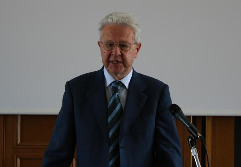 Il prof. Sergio Bartole